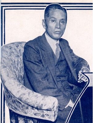 Imaida Kiyonori, the eighth Administrative Superintendent of Korea